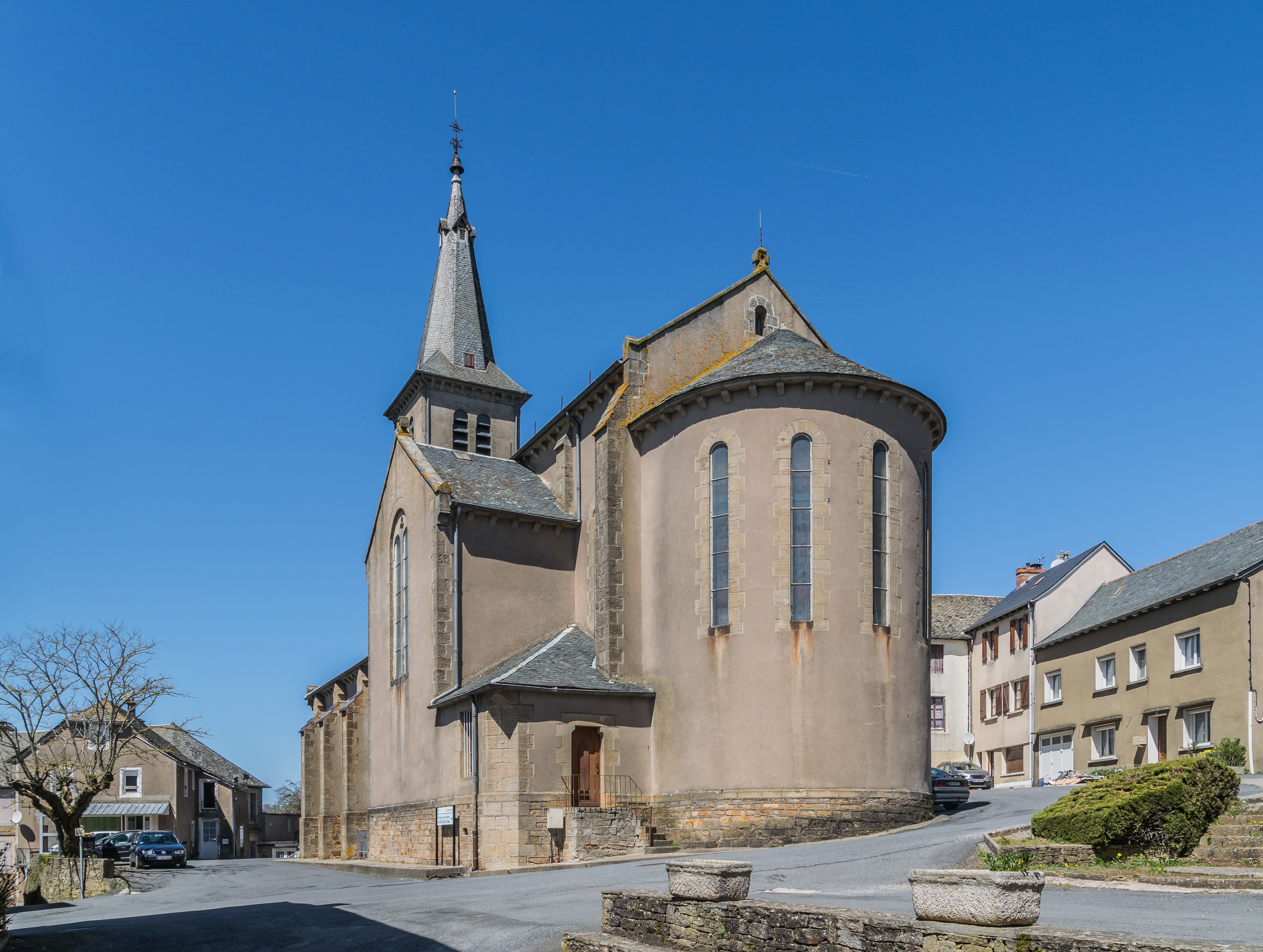 Church of La Besse-Vors, commune of Villefranche-de-Panat, Aveyron, France